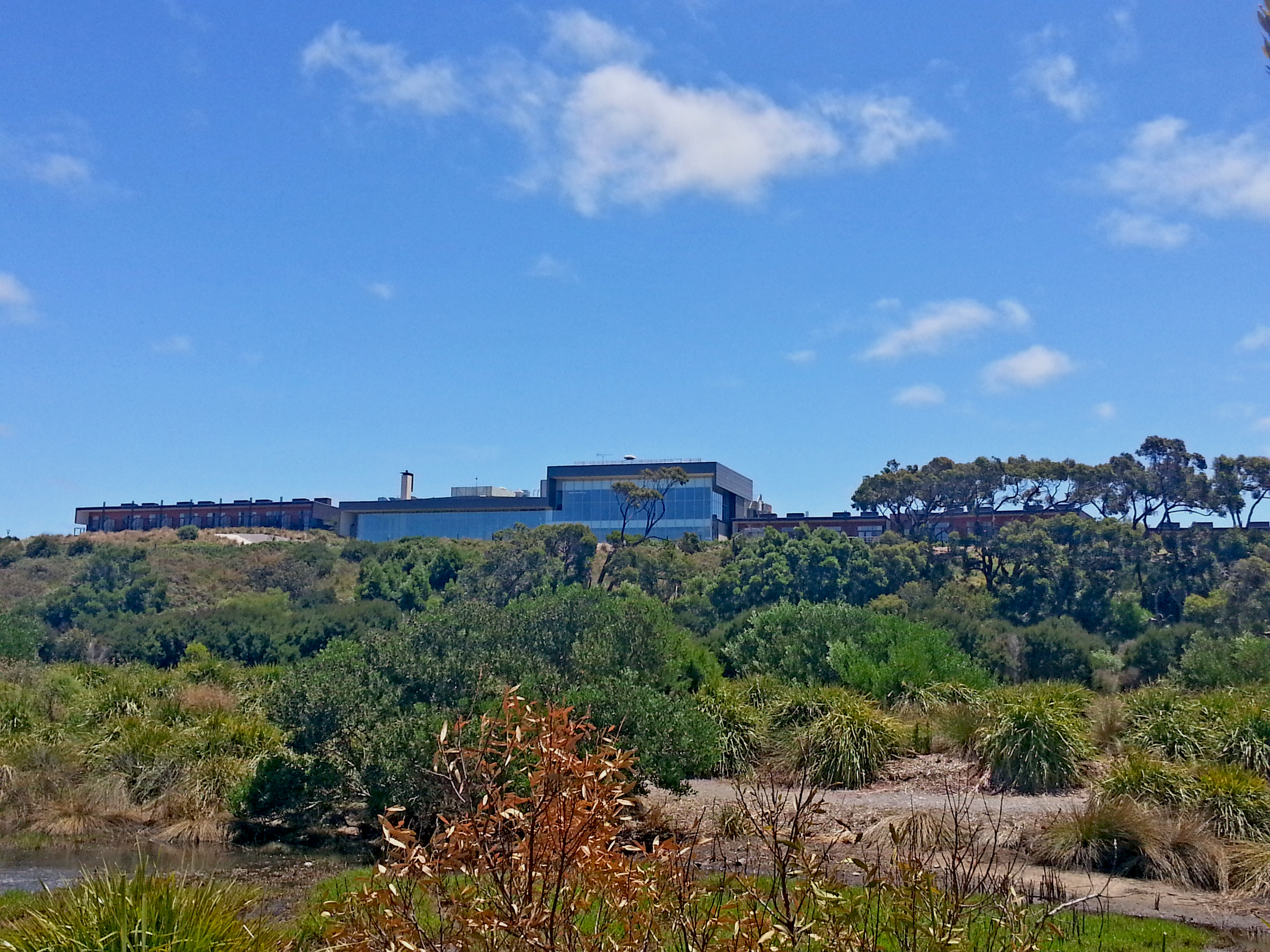 RACV Resort in Inverloch, Victoria, Australia